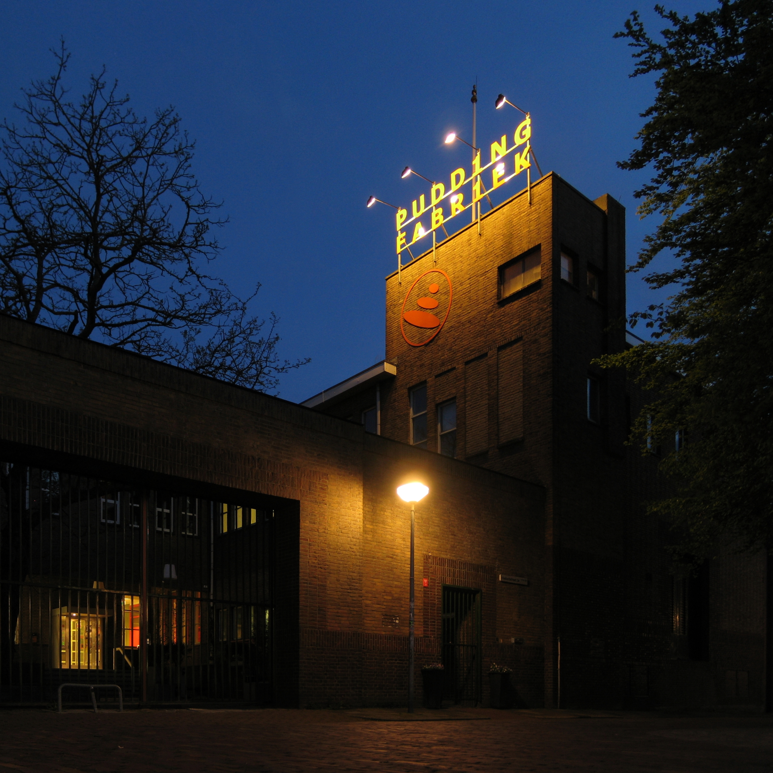 The Puddingfabriek (1931) in the Dutch city of Groningen.